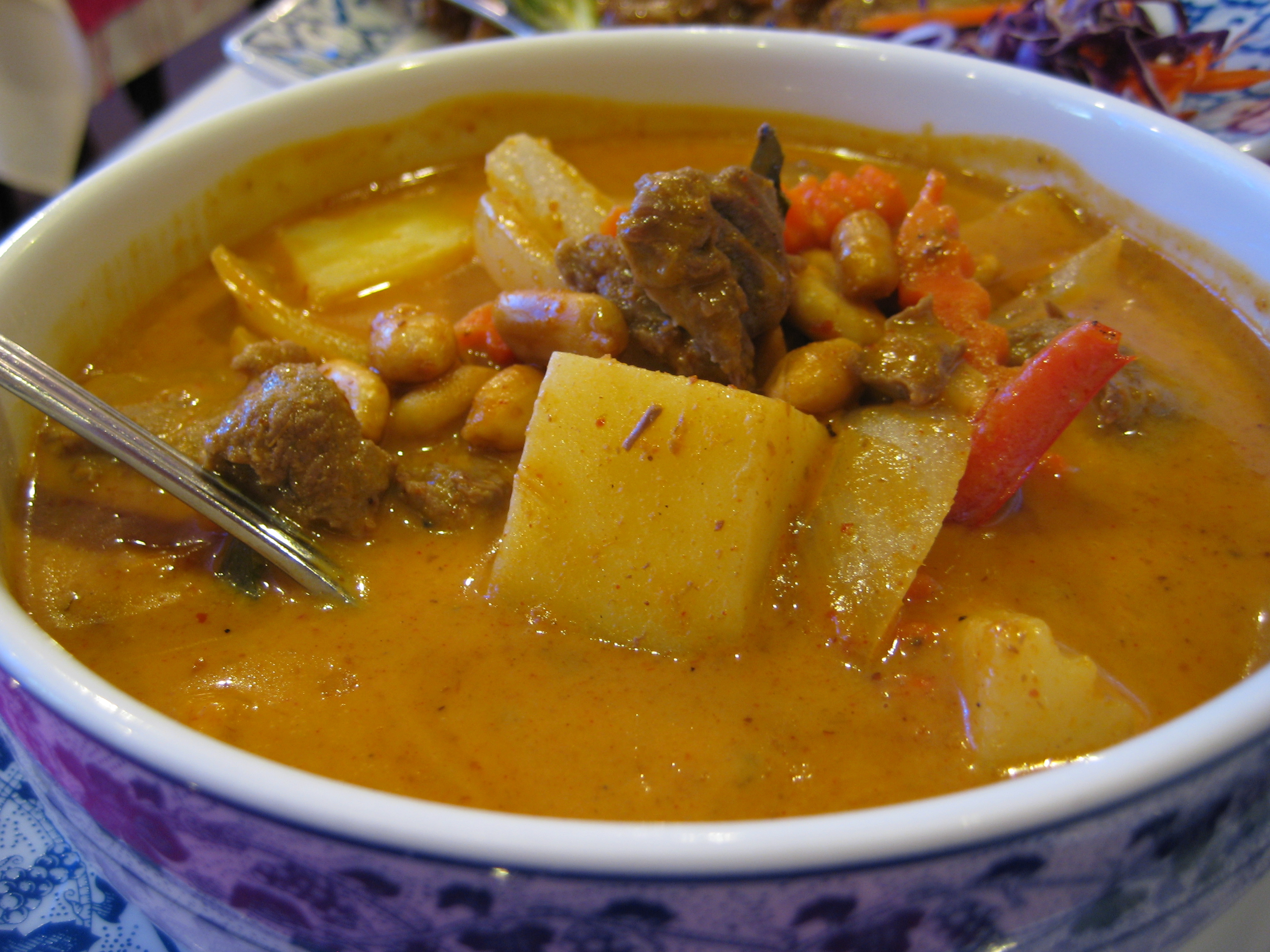 Massaman beef curry. Good rich flavor, but I didn't like the choice of meat. I prefer big chunks of tender beef; these were tiny morself of a tougher cut. This photo was taken on October 7, 2008 in Union City, California, US.